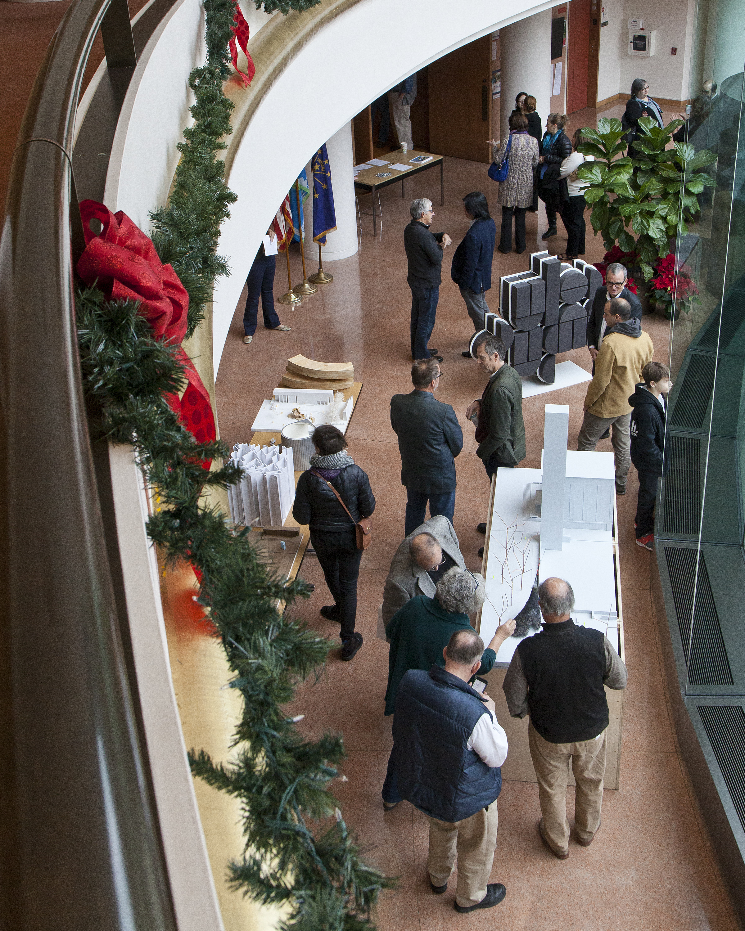 2016 Exhibit Columbus Miller Prize Juried Presentations at Columbus City Hall.